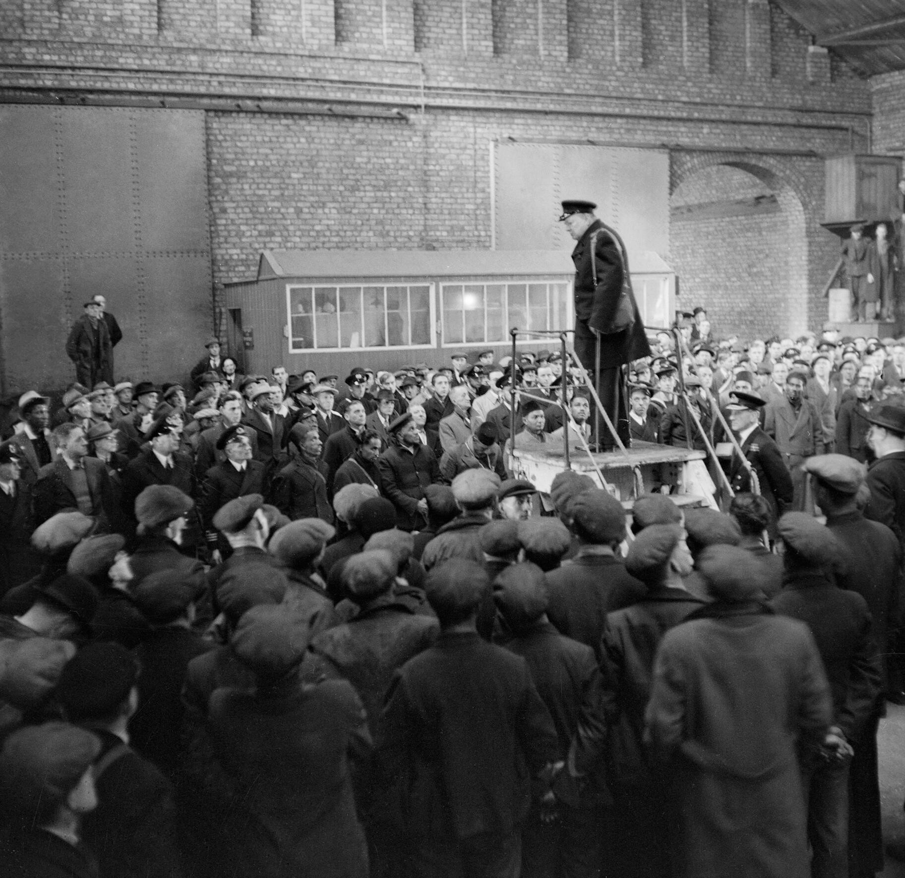 Winston Churchill addressing merchant ships' crews and dockers at Liverpool, April 1941. The Prime Minister, Mr Winston Churchill, making a speech (in warehouse setting) to merchant ships' crews and dockers at Liverpool, in which he thanked his listeners for their part in helping win the Battle of the Atlantic. One of the Prime Minister's public engagements during his visit to Manchester and Merseyside between 25 and 26 April 1941.